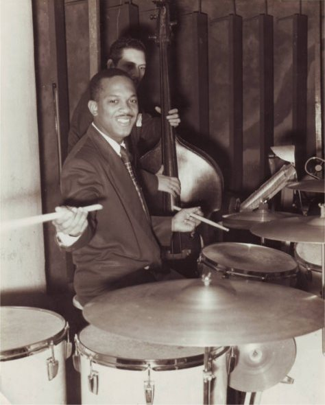 Guillermo Barreto playing drums with Kike Hernández on double bass.